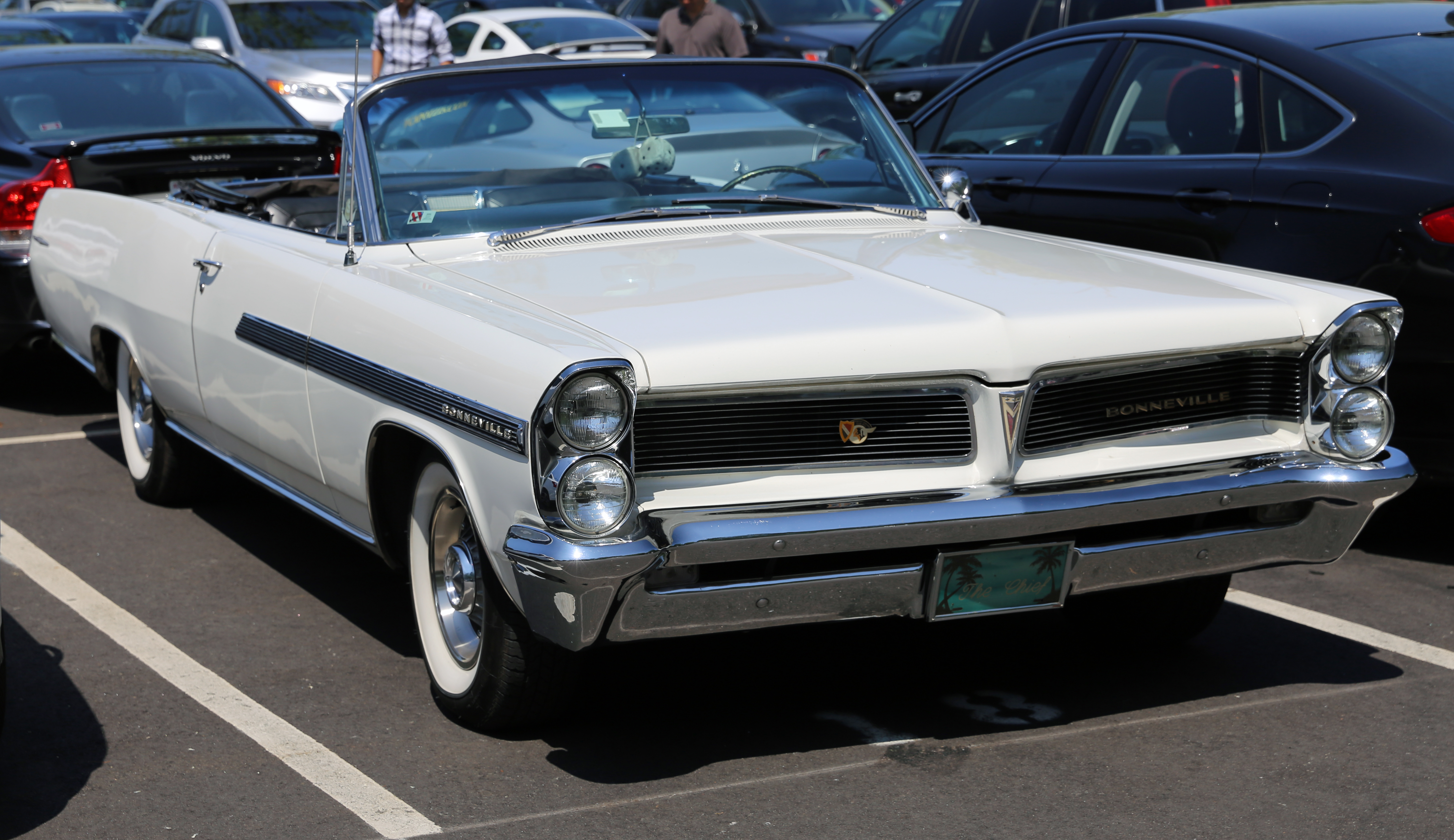 1963 Pontiac Bonneville Convertible seen in the parking lot of the 2013 Greenwich Concours d'Elegance.